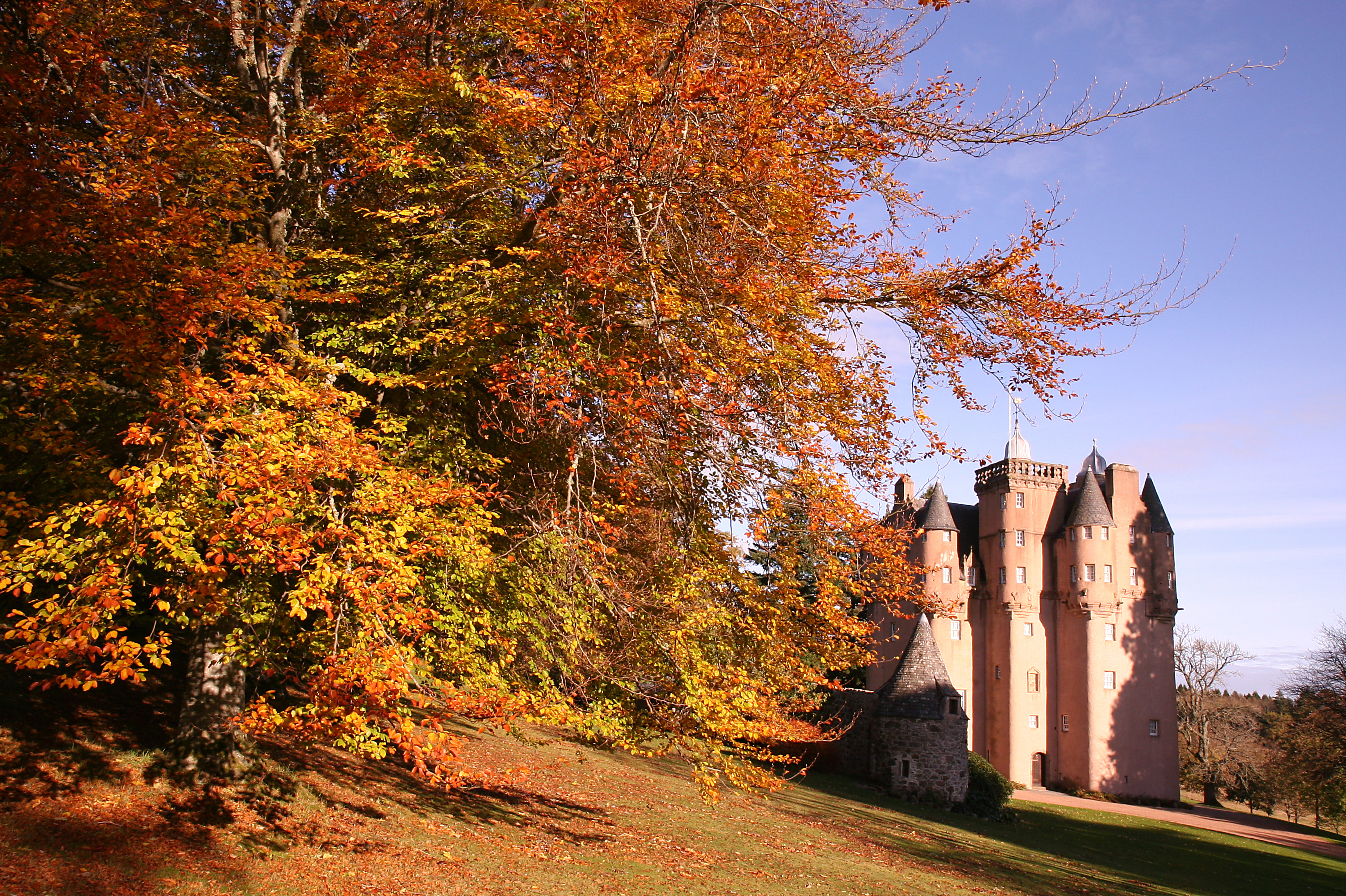 Craigievar Castle, Aberdeenshire, Scotland